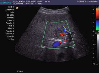 See Ultrasonography of liver tumors.